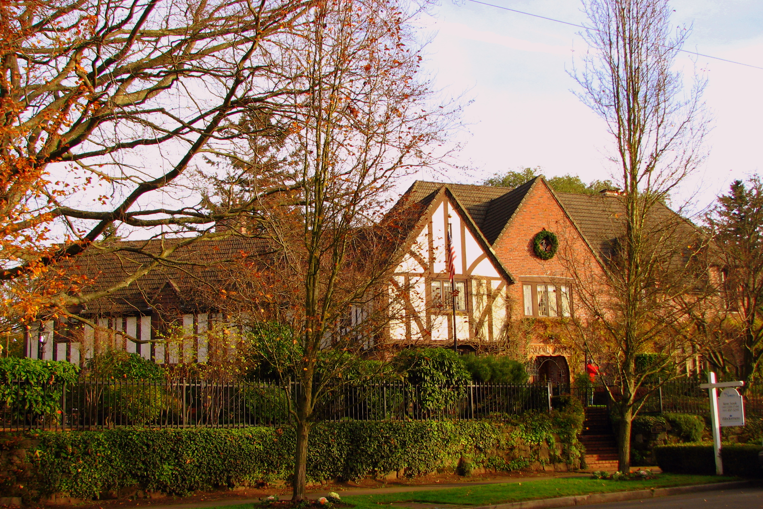 The historic Thomas J. Autzen House (built 1927), located at 2425 Northeast Alameda Street in Portland, Oregon, United States, is listed on the US National Register of Historic Places.